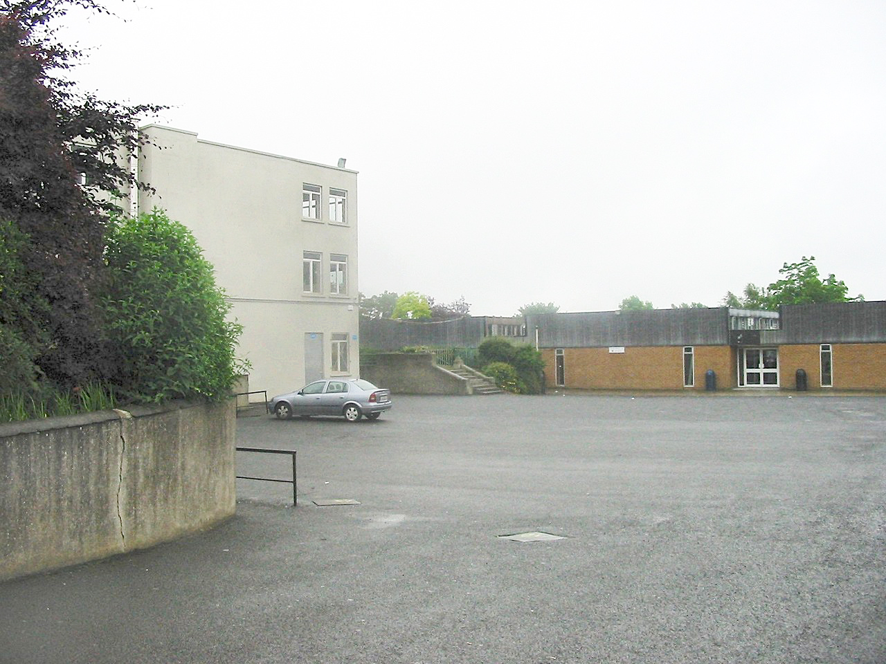 Photo taken by David Malone 13/07/2007 of the yard of Mount Temple School, Dublin.